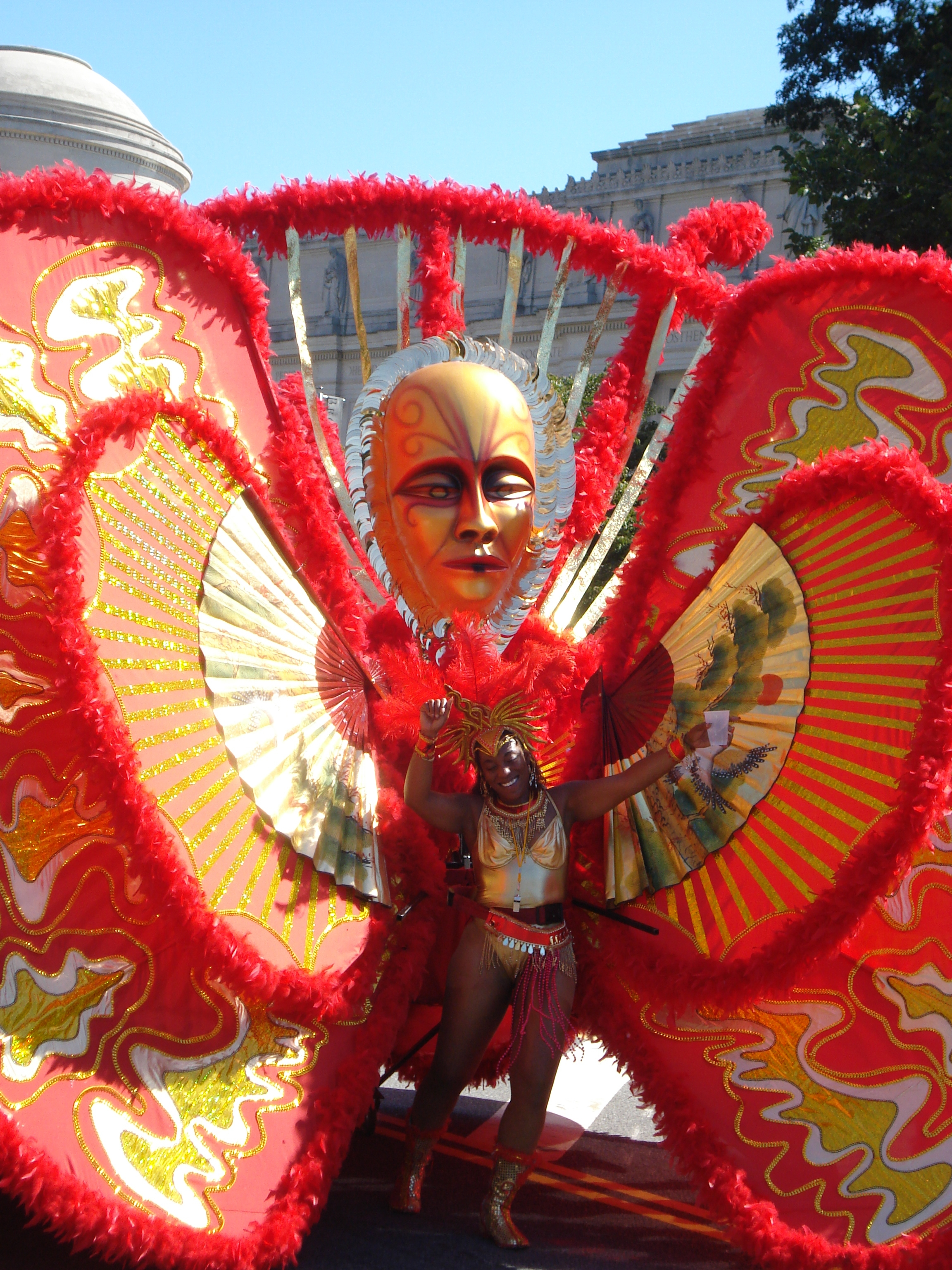 Woman in elaborate red costume toward the end of the parade route of the West Indian Day Parade (or Labor Day Carnival).